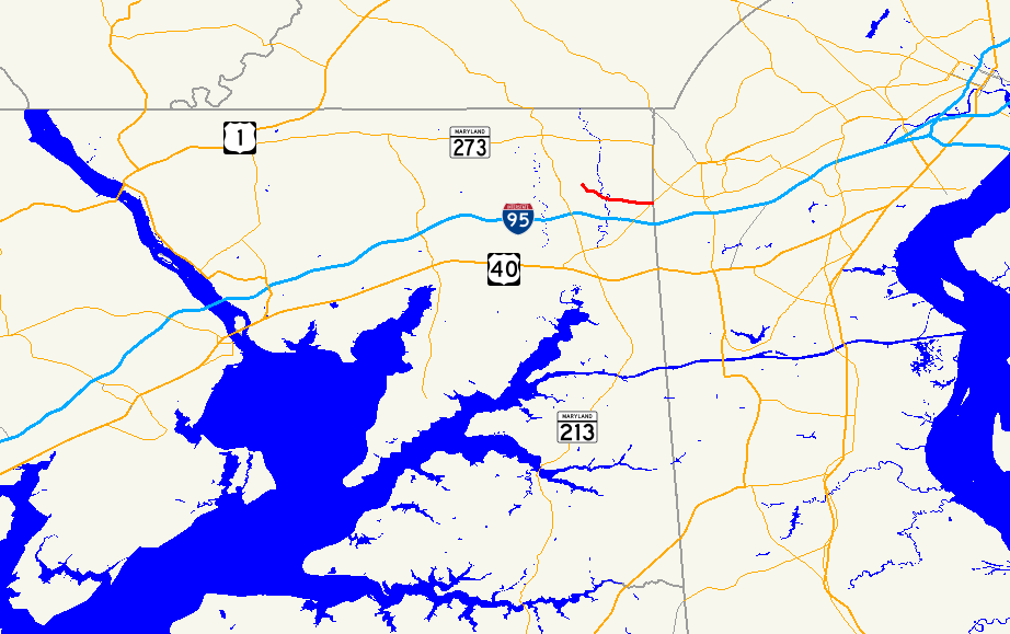 Map of Maryland Route 277